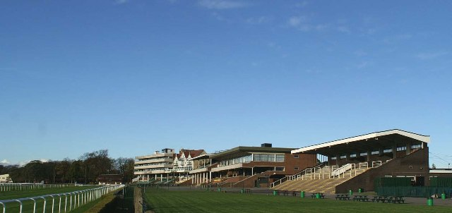 The grandstands at Haydock Park Racecourse.